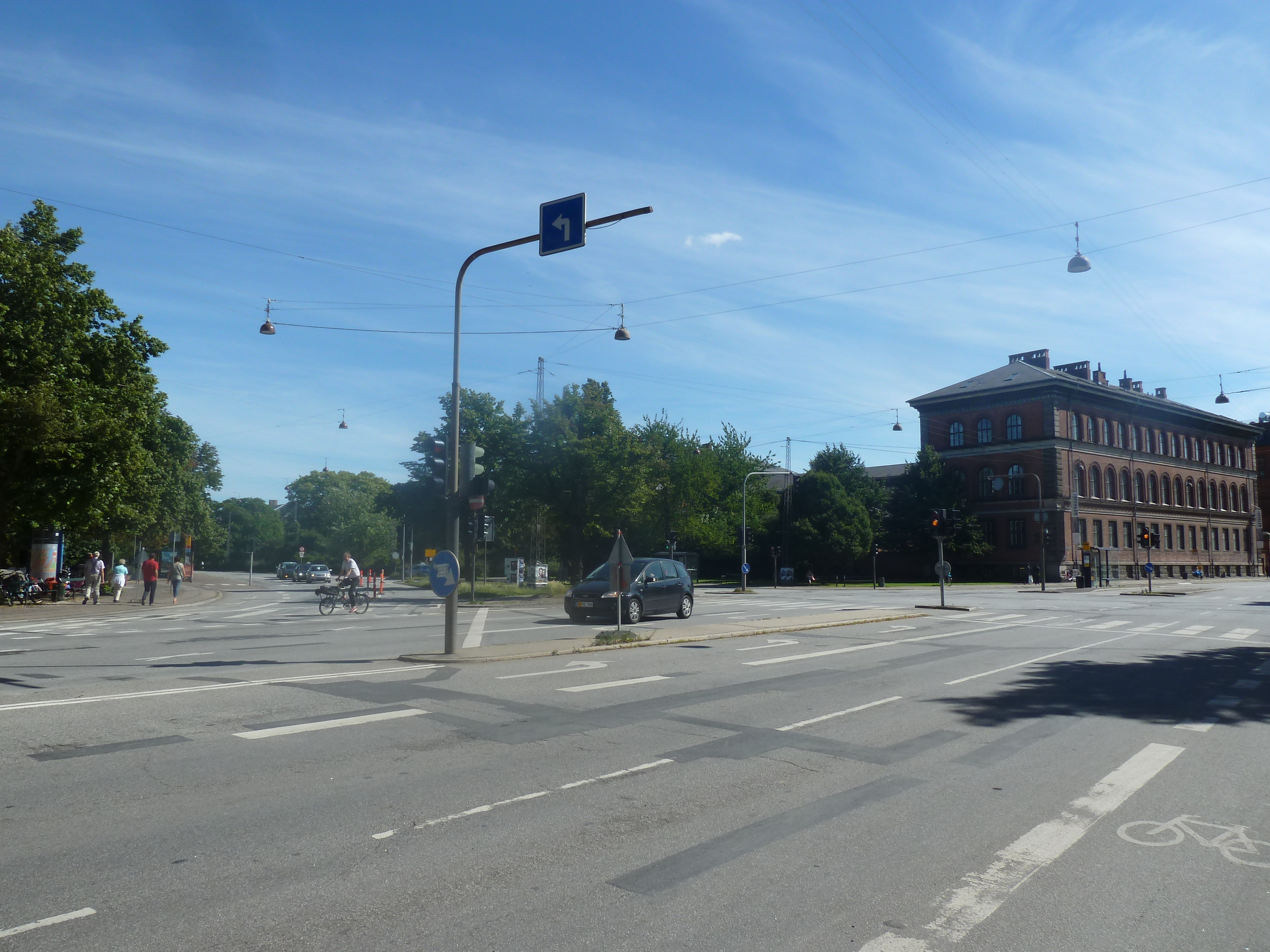 The square Sølvtorvet in Indre By in Copenhagen.